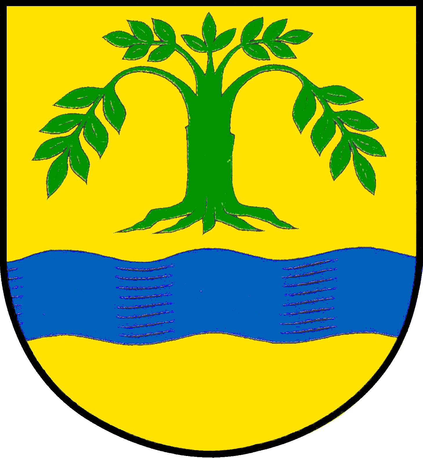 Coat of arms of the municipality Grube in Schleswig-Holstein, Germany.